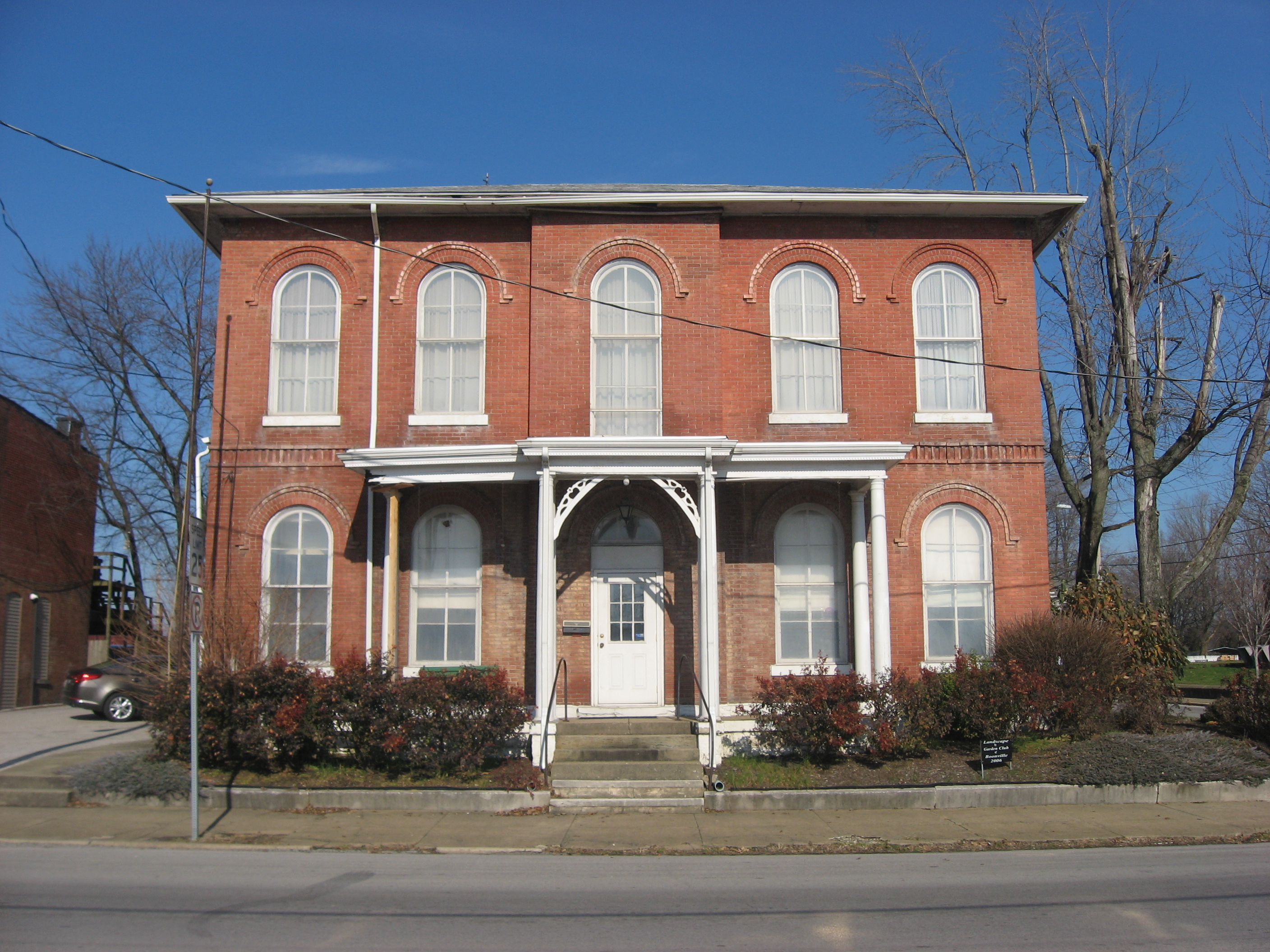 Front of the Old Warrick County Jail, located at 124 E. Main Street (State Road 62) in in Boonville, Indiana, United States. Built in 1877, it is listed on the National Register of Historic Places, and it is part of a Register-listed historic district, the Boonville Public Square Historic District. Please note that the time given by EXIF is wrong: the camera was still set for daylight savings time, rather than standard time, and I forgot to adjust for the fact that Warrick County is on Central Time rather than Eastern Time. This photograph was taken at 11:14 AM local time.